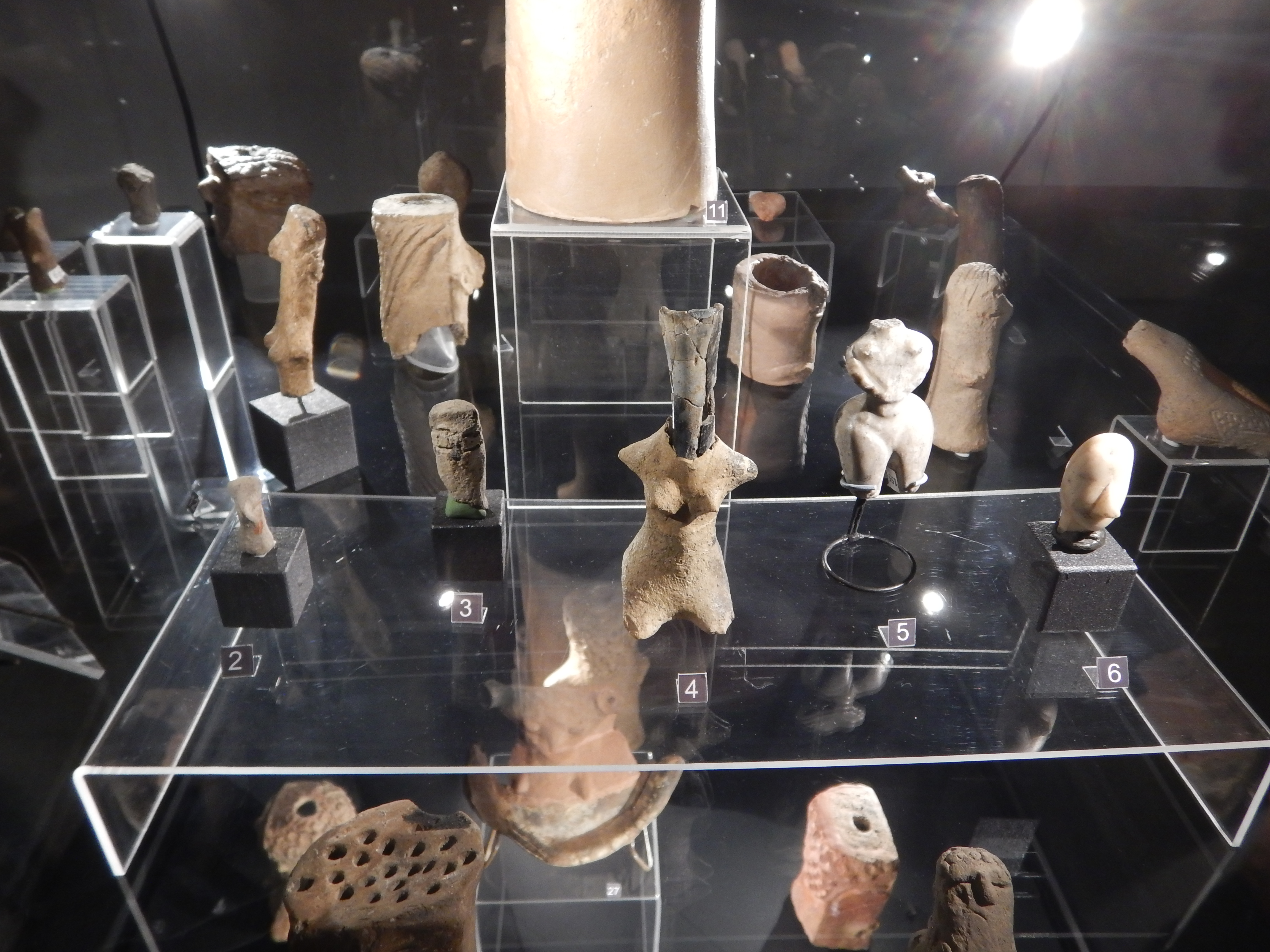 Inside Archaeological Museum of North Macedonia